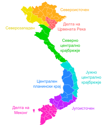 Map in Macedonian of the regions of Vietnam.